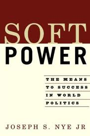 The cover of Joseph S. Nye Jr. (2004) Soft Power: The Means to Success in World Politics, New York, N.Y.: Public Affairs ISBN: 978-1-58648-225-1.